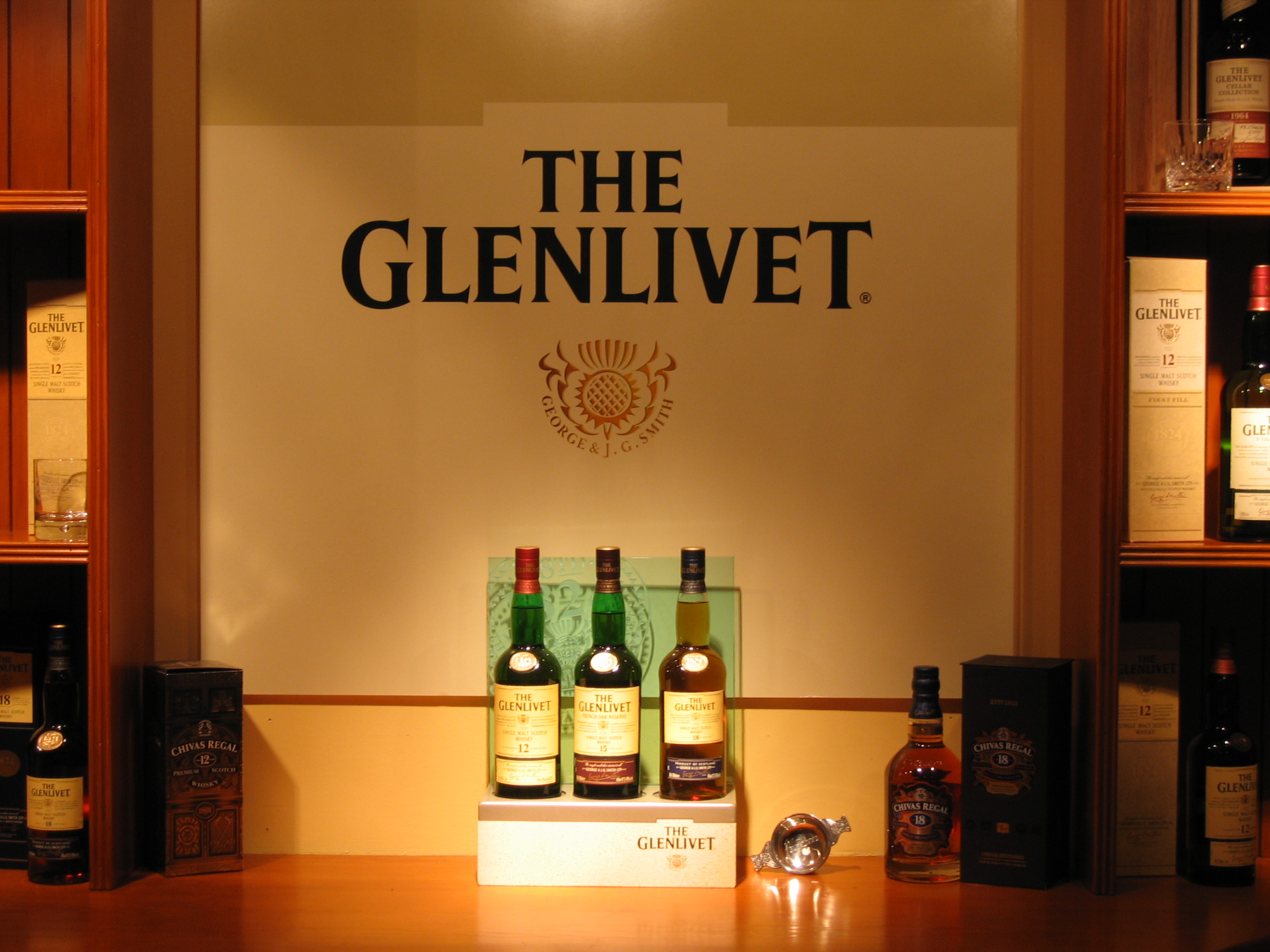 Bottles of The Glenlivet